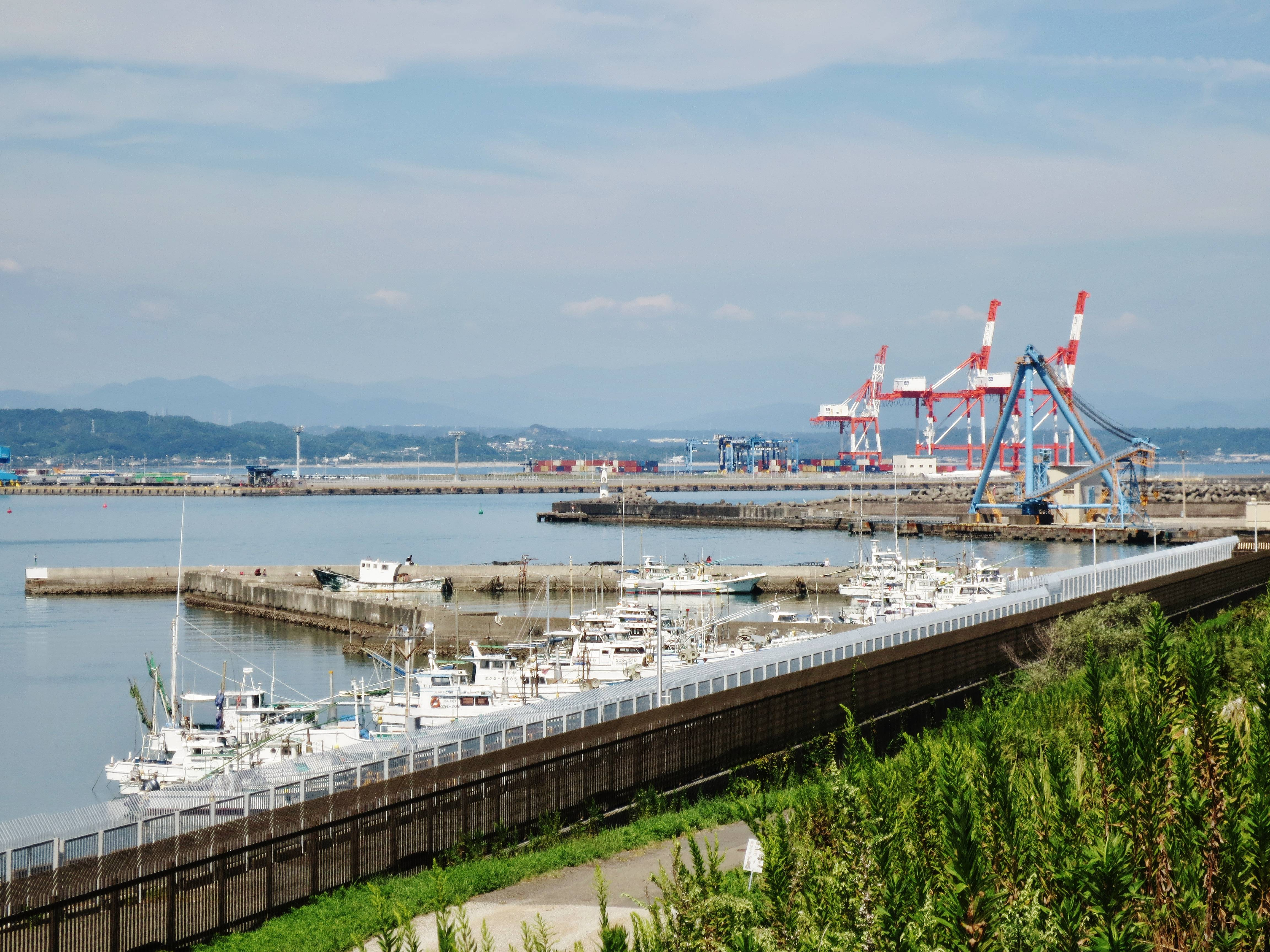 Port of Omaezaki Omaezaki area.